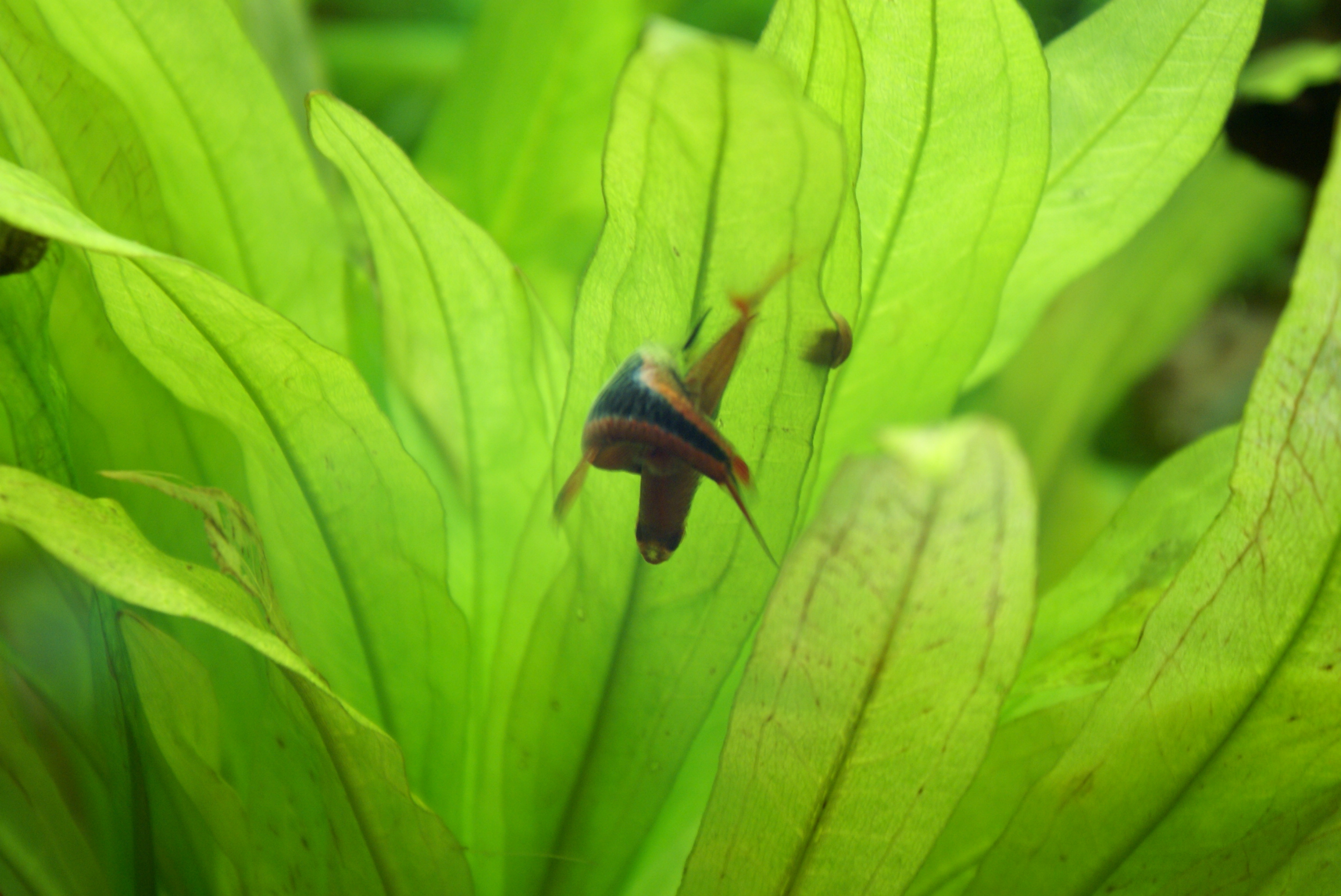 Harlequin rasbora, Trigonostigma heteromorpha. The plant is a species of Echinodorus.